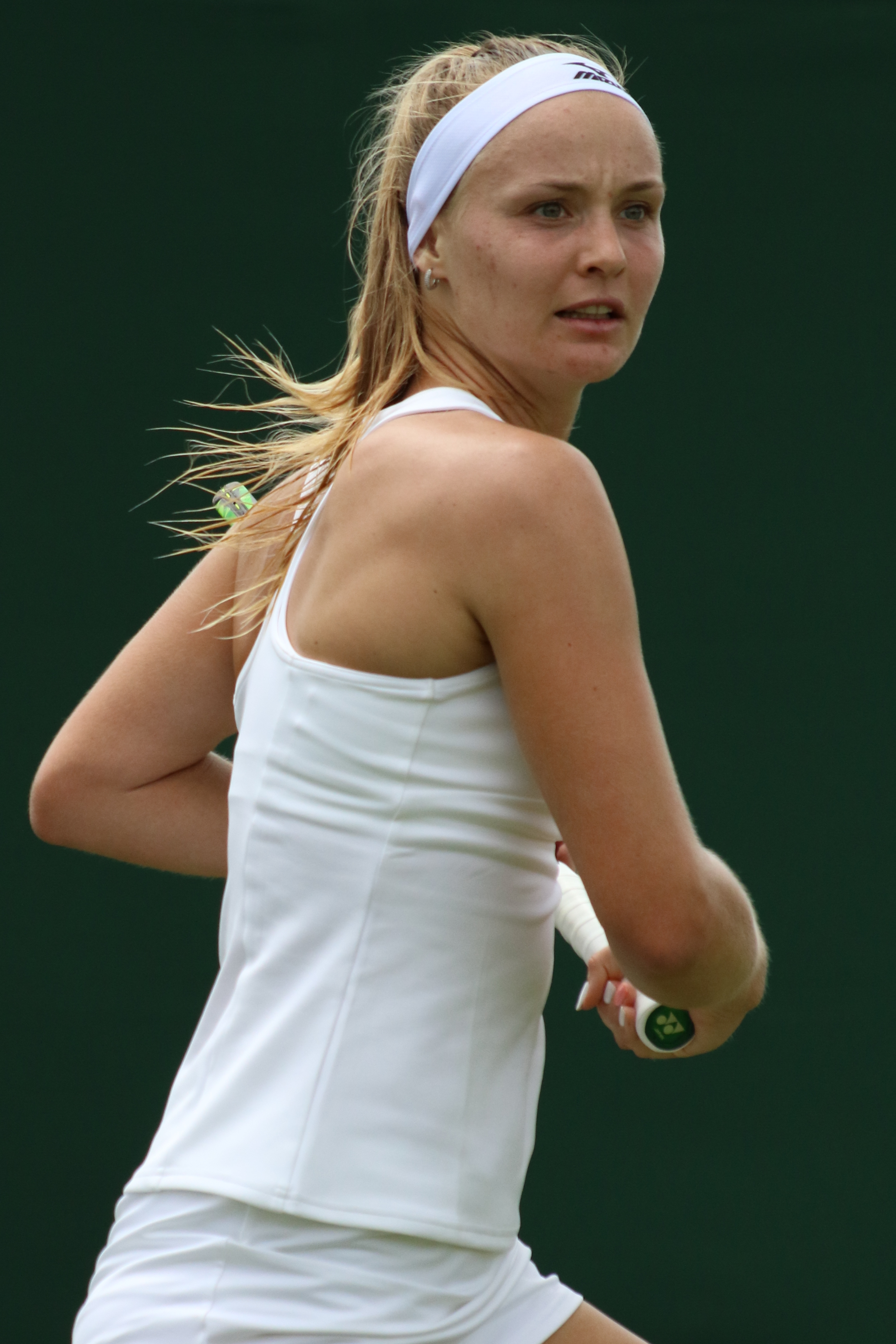 2019 Wimbledon Qualifying Tournament.